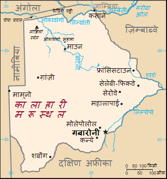 Map of Botswana. Hindi.